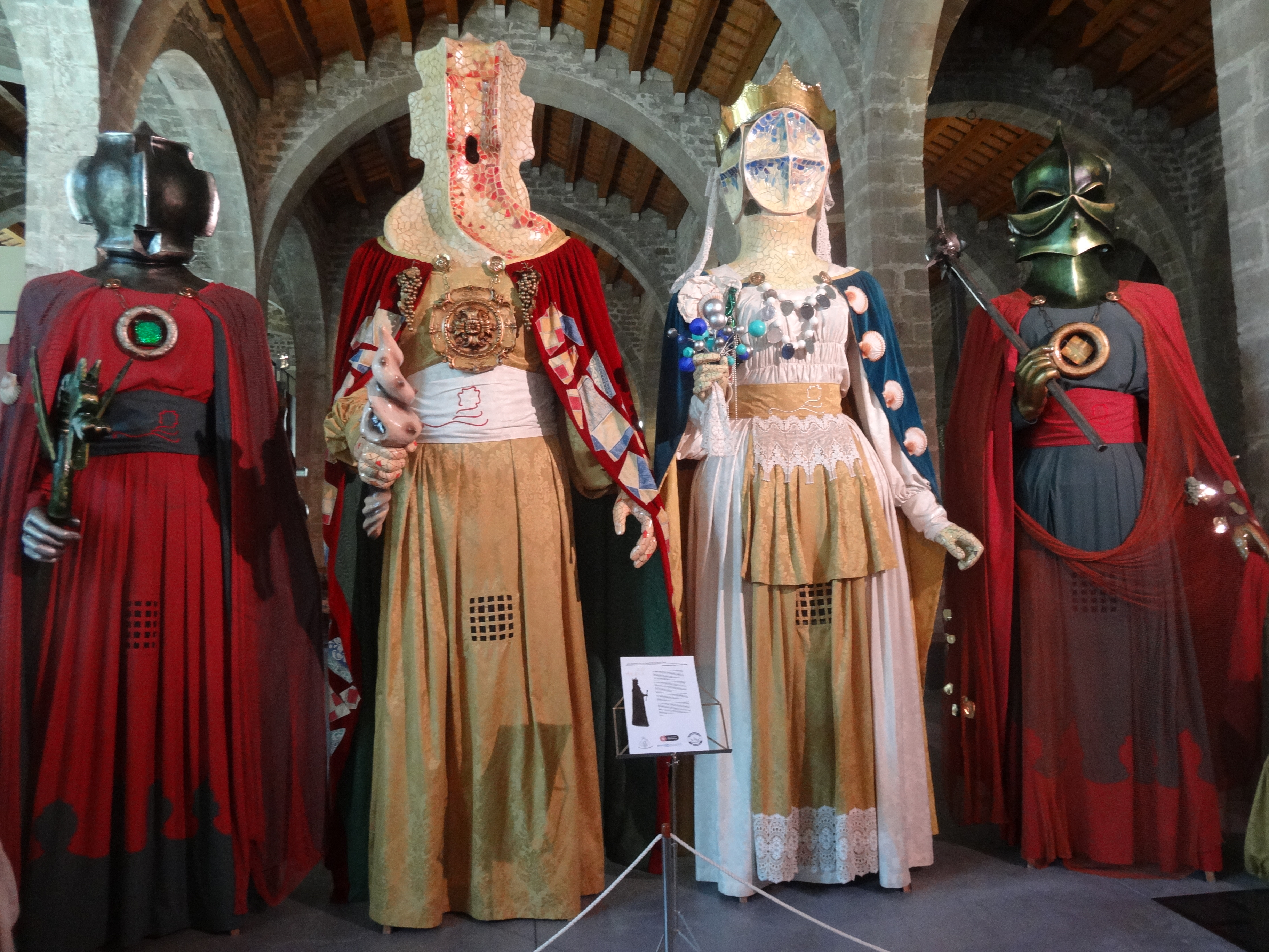 Exhibition of Giants at the Museu Marítim, Barcelona, 2013.